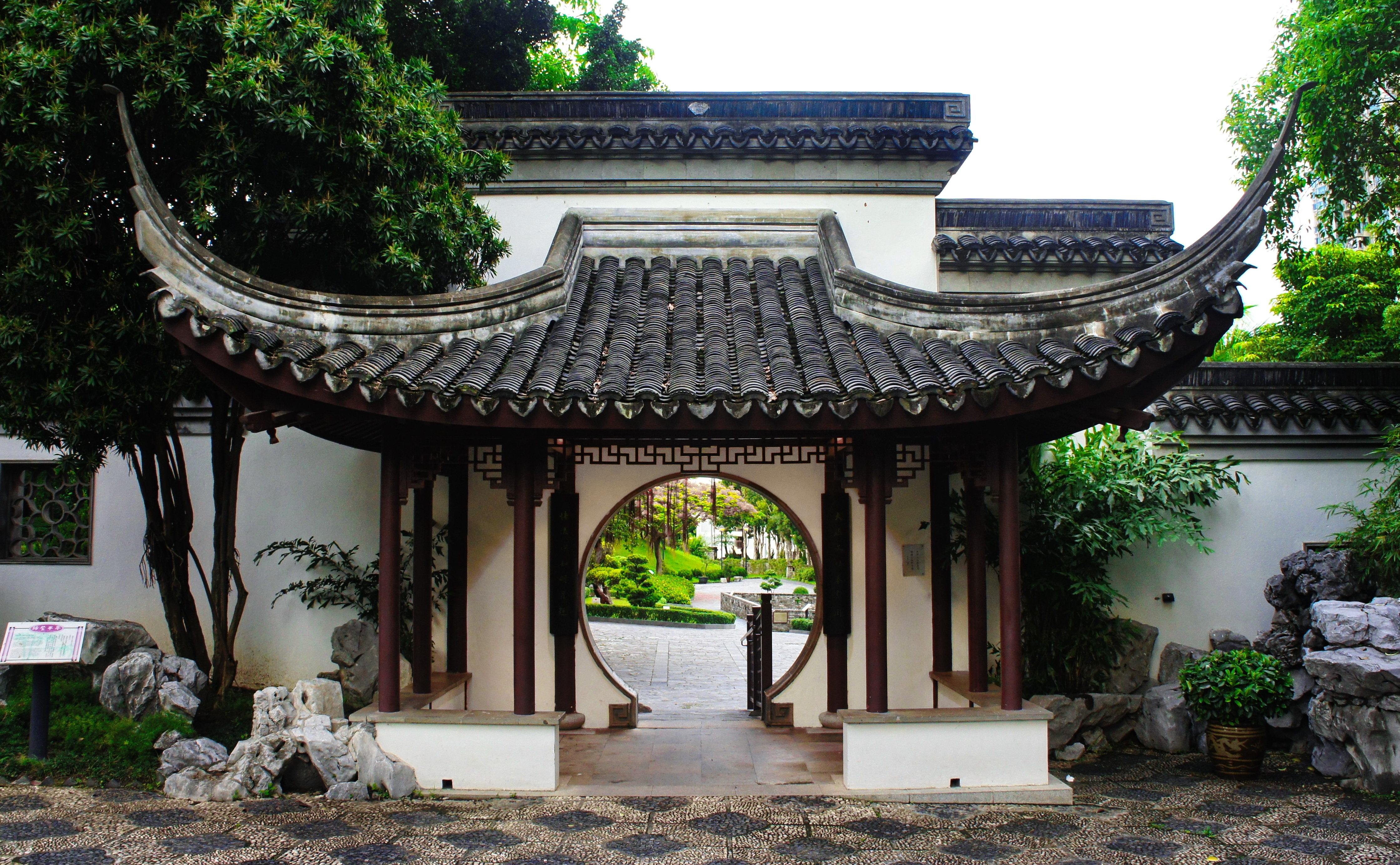 Kuixing Pavilion, Kowloon Walled City Park, Hong Kong. In Chinese mythology, Kuixing is the god of literature.